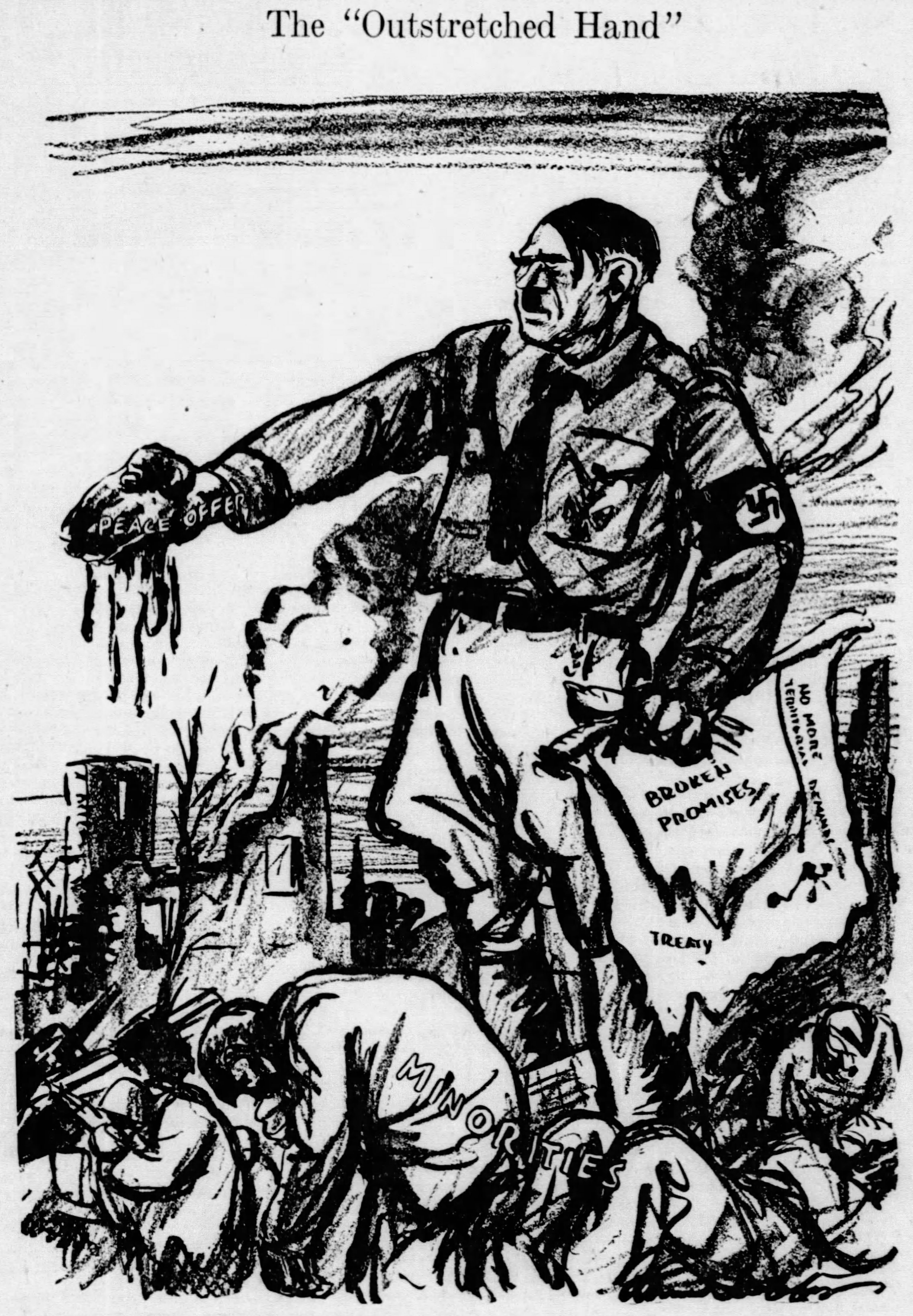 "The 'Outstretched Hand'", an editorial cartoon commenting on Adolf Hitler's peace offerings following his invasion of Poland. Winner of the 1940 Pulitzer Prize for Editorial Cartooning.